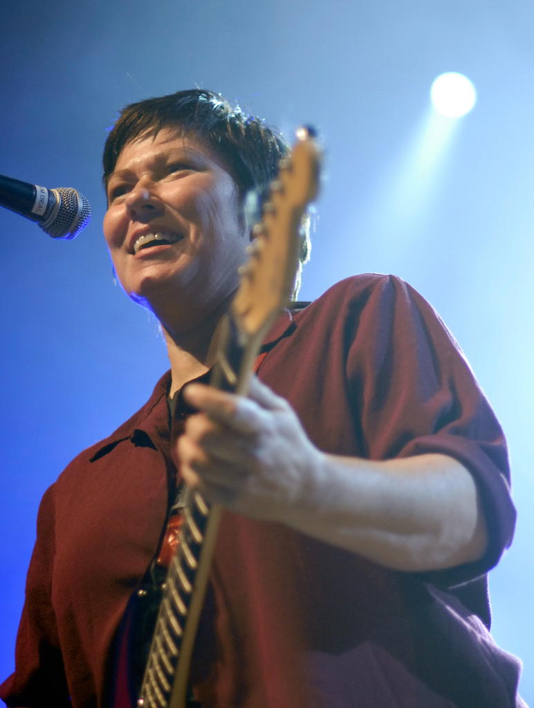 Kim Deal on stage with The Breeders at All Tomorrow's Parties 2009